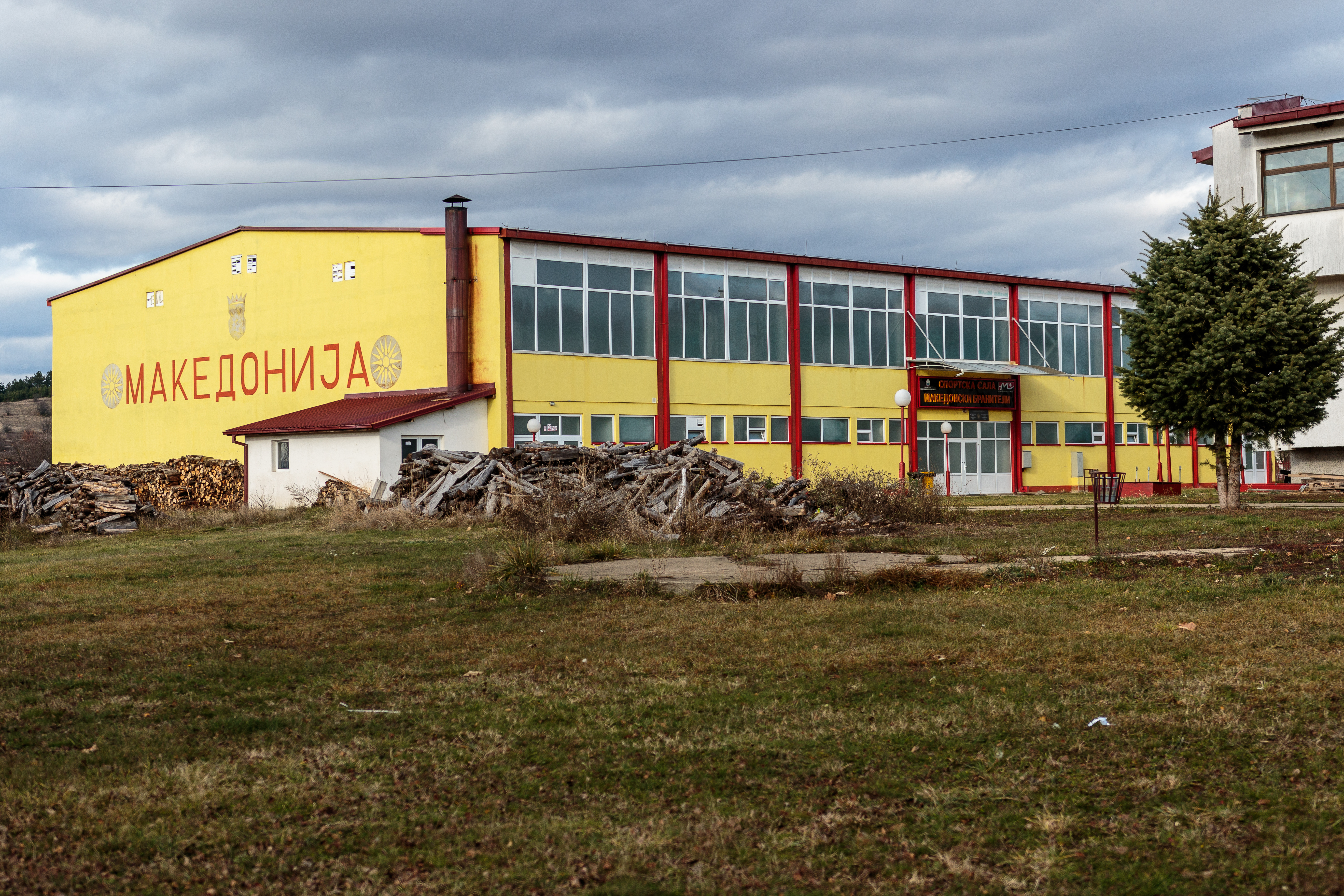 Sport hall in Berovo